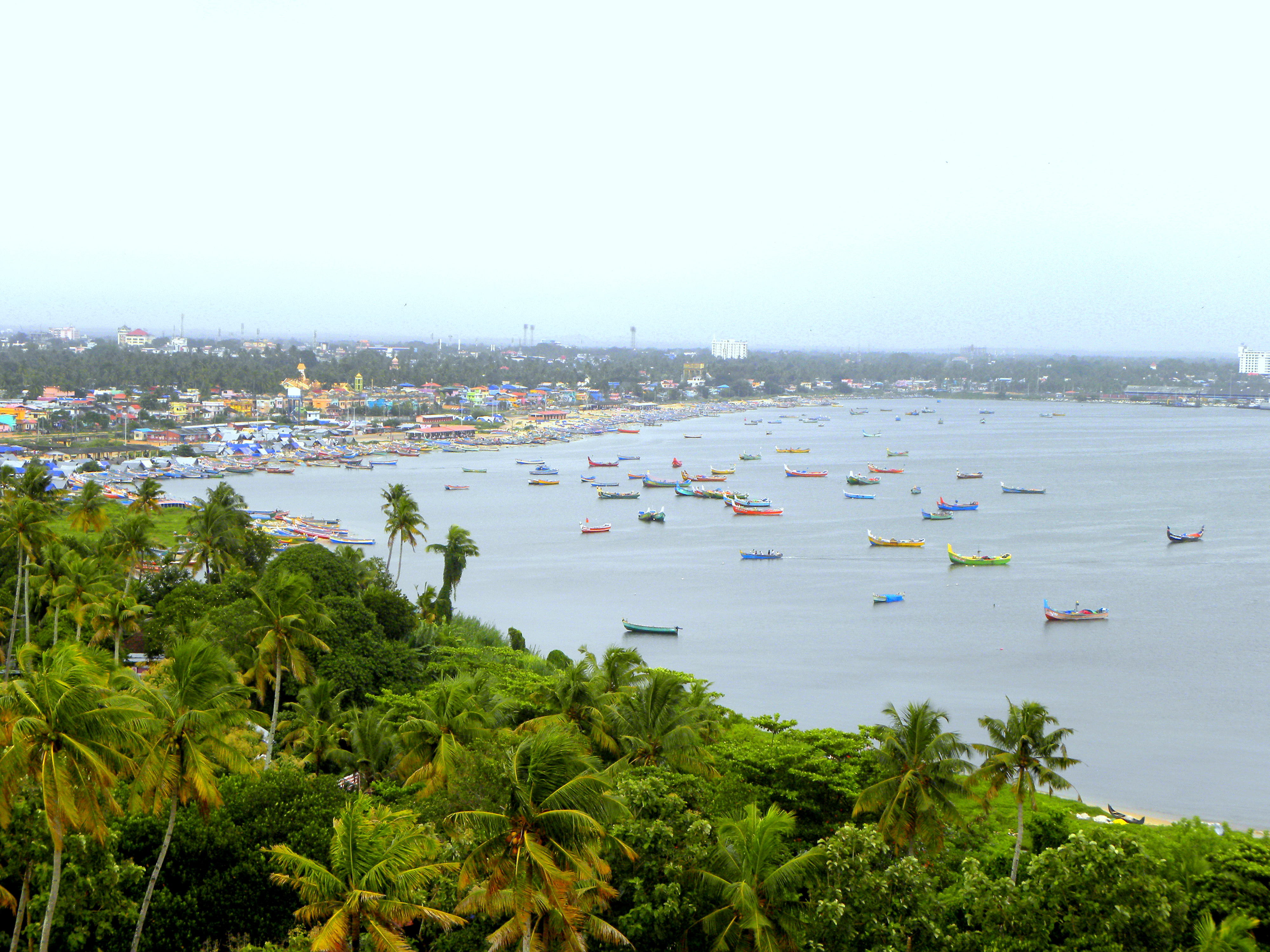 Kollam City's most crowded area - Thangassery Harbour & Kollam Port